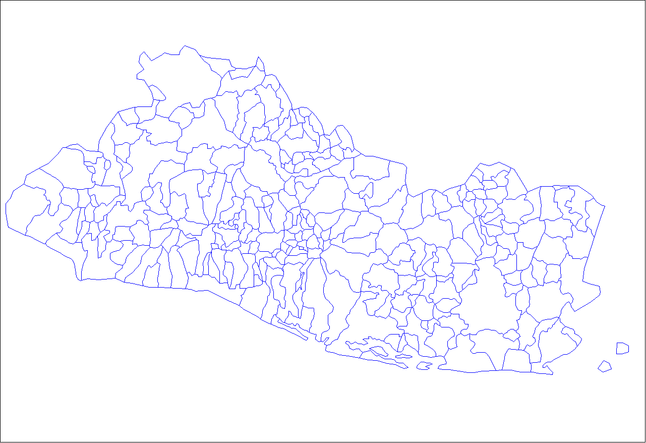 Map of the municipalities of El Salvador. Created by Rarelibra 17:42, 11 April 2007 (UTC) for public domain use, using MapInfo Professional v8.5 and various mapping resources.